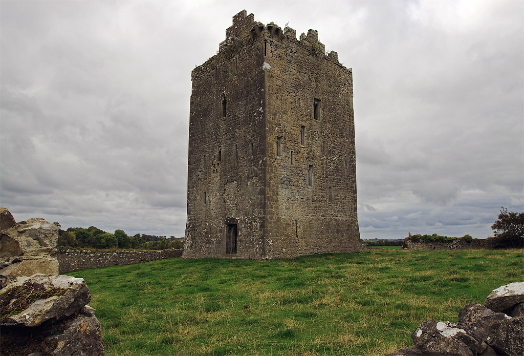 Castles of Munster: Lackeen, Tipperary The location of this castle is just north of the R438 and equi-distant between Portumna and Birr. This tower house with its stepped gables (a later modification) lies within a pentagonal bawn having an arched gateway entrance. The castle belonged to Brian O'Kennedy who died in 1588, and was confiscated by Cromwell in 1653.